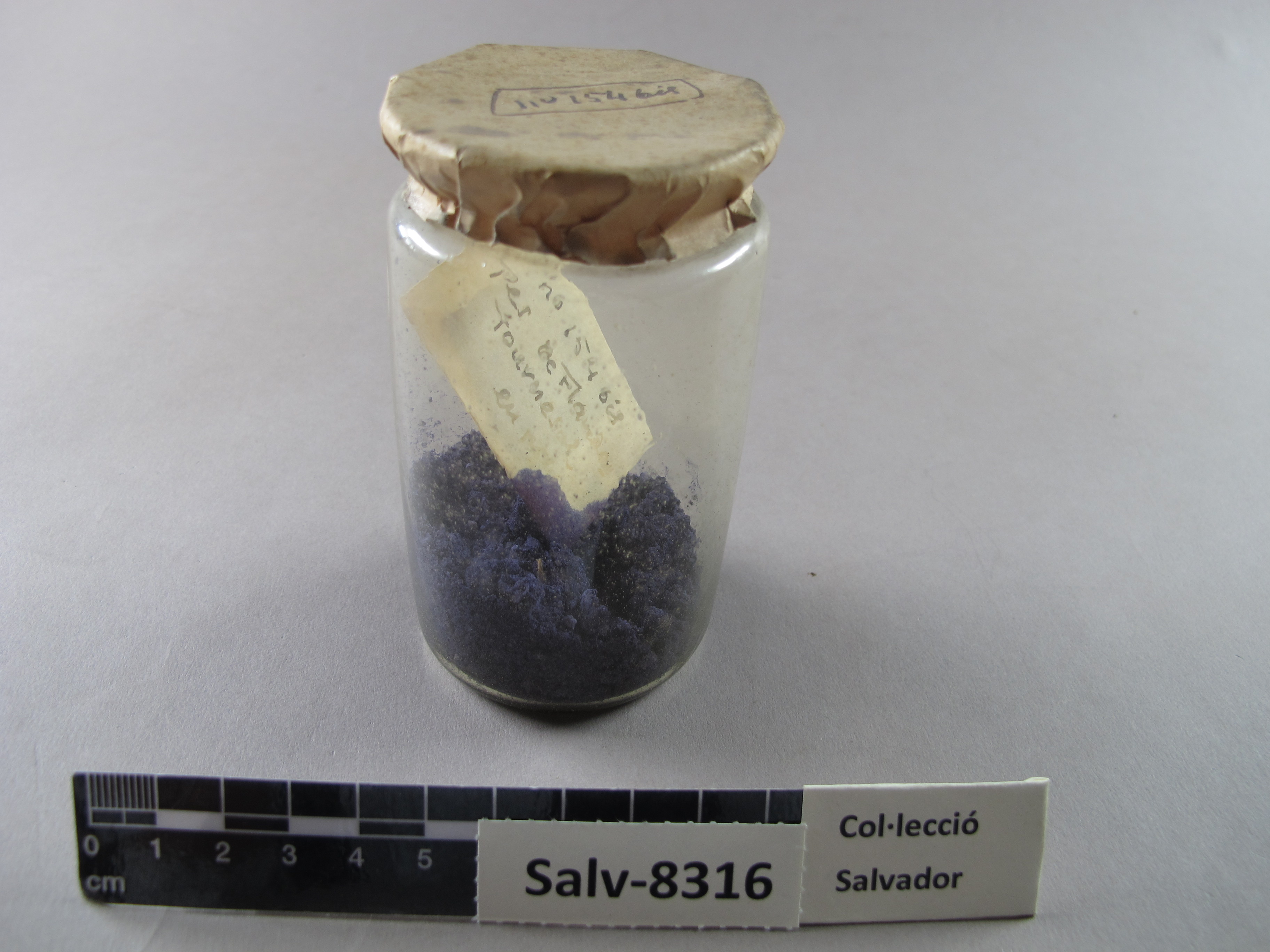 Imatge d'inventari